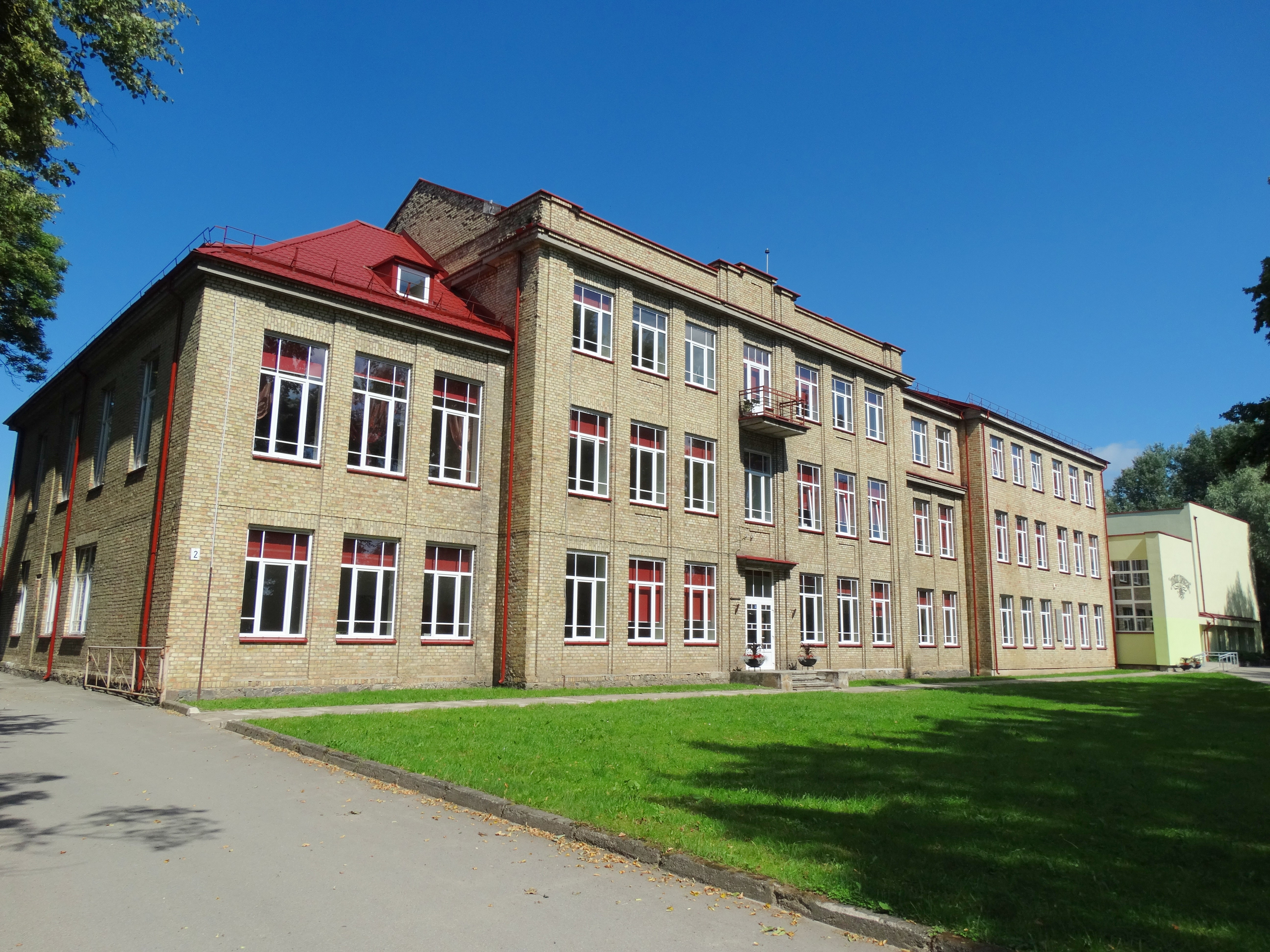 Aušra gymnasium, Joniškis, Lithuania